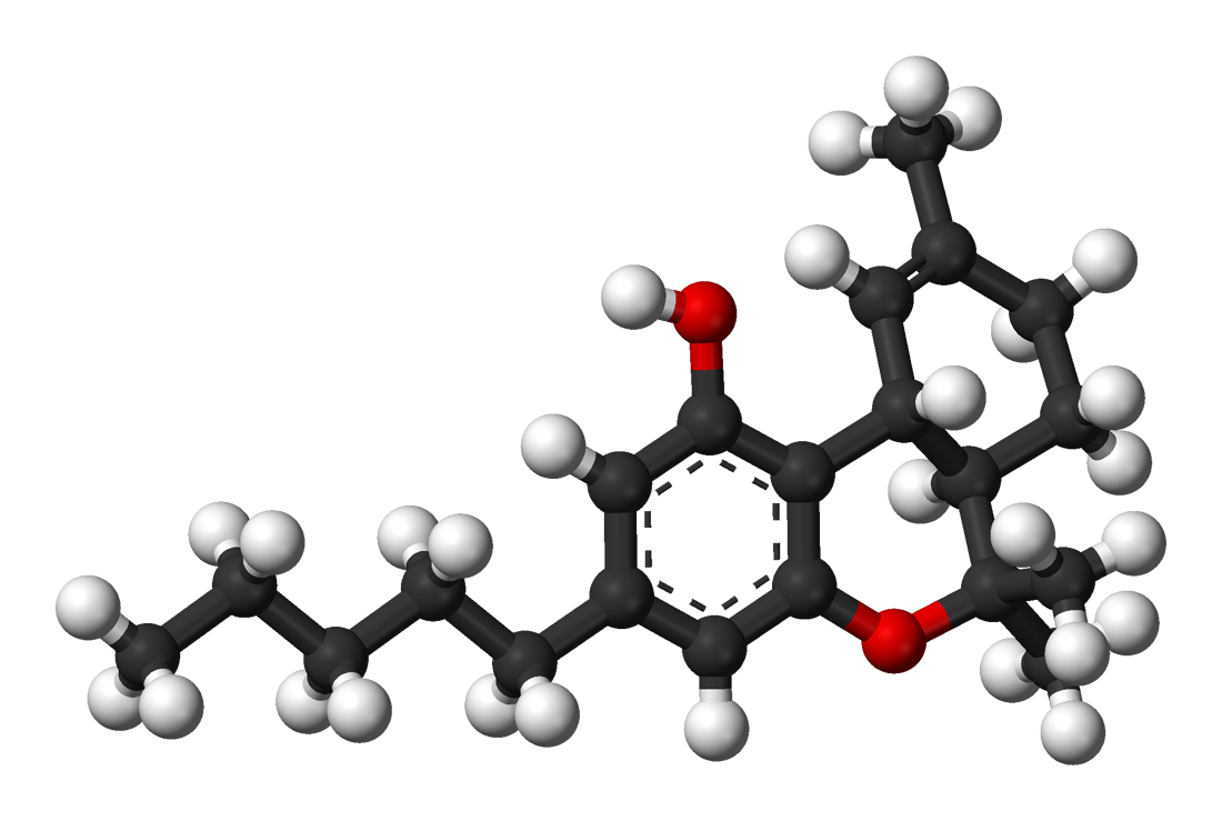 Tetrahydrocannabinol-3D-balls